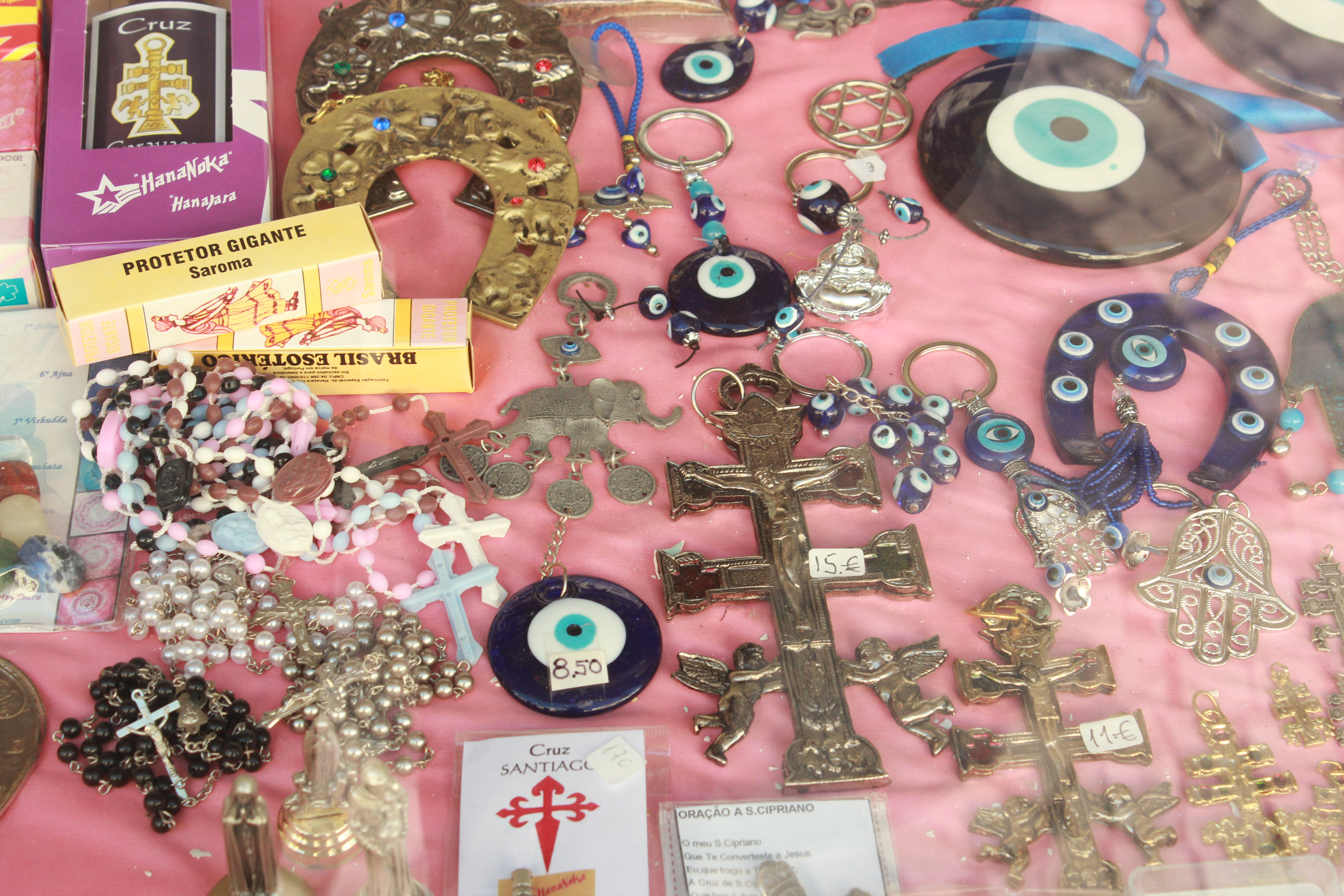 Various kinds of talismans in a window display of a shop selling religious paraphernalia in Porto, Portugal.